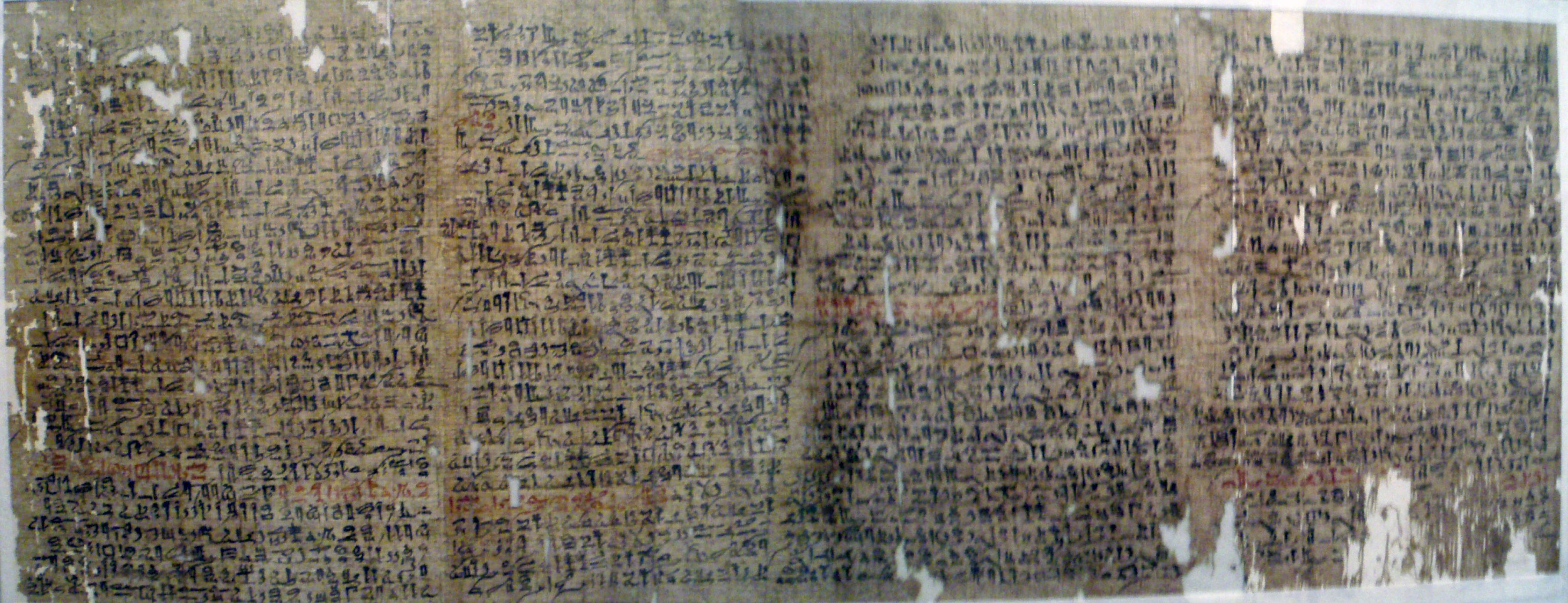 Merged photos depicting a copy of the Ancient Egyptian papyrus commonly known as "The Westcar Papyrus", sometimes also known by the longer name "Three Tales of Wonder from the Court of King Khufu", written in hieratic text. Photo(s) taken at the Altes Museum, Berlin, later merged and cropped using PhotoShop. Catalog number: P 3033.